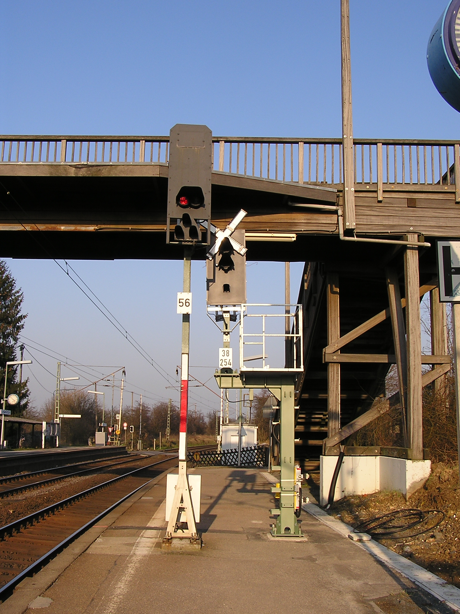 2 different types of home signals at the Main-Weser-Bahn in the stop FFM-Berkersheim: Older block signal and modern combination signal (Ks)